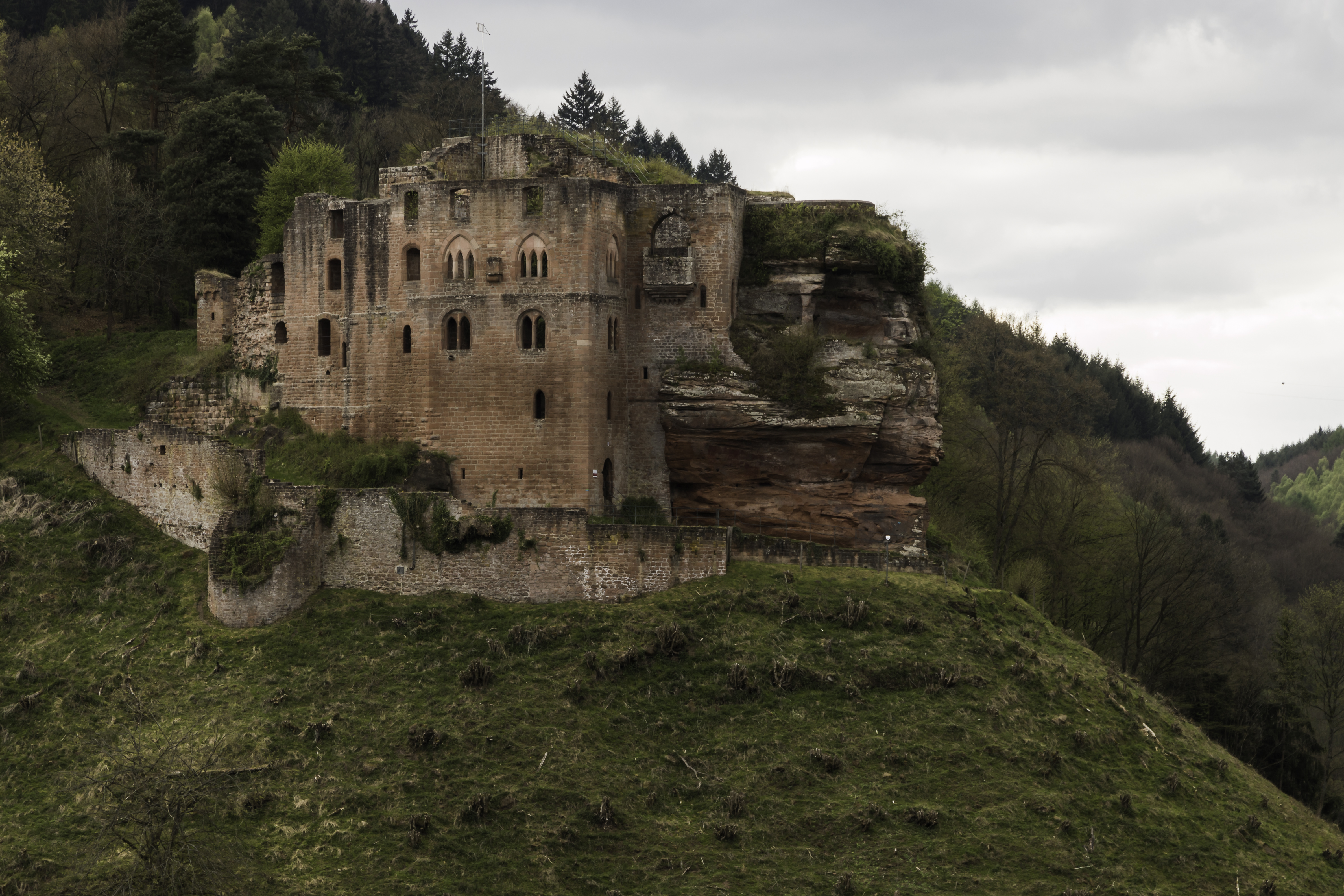 View on Burg Frankenstein (Palatinate) from Heidenfelsen. This is a photograph of an architectural monument.It is on the list of cultural monuments of Frankenstein (Pfalz)